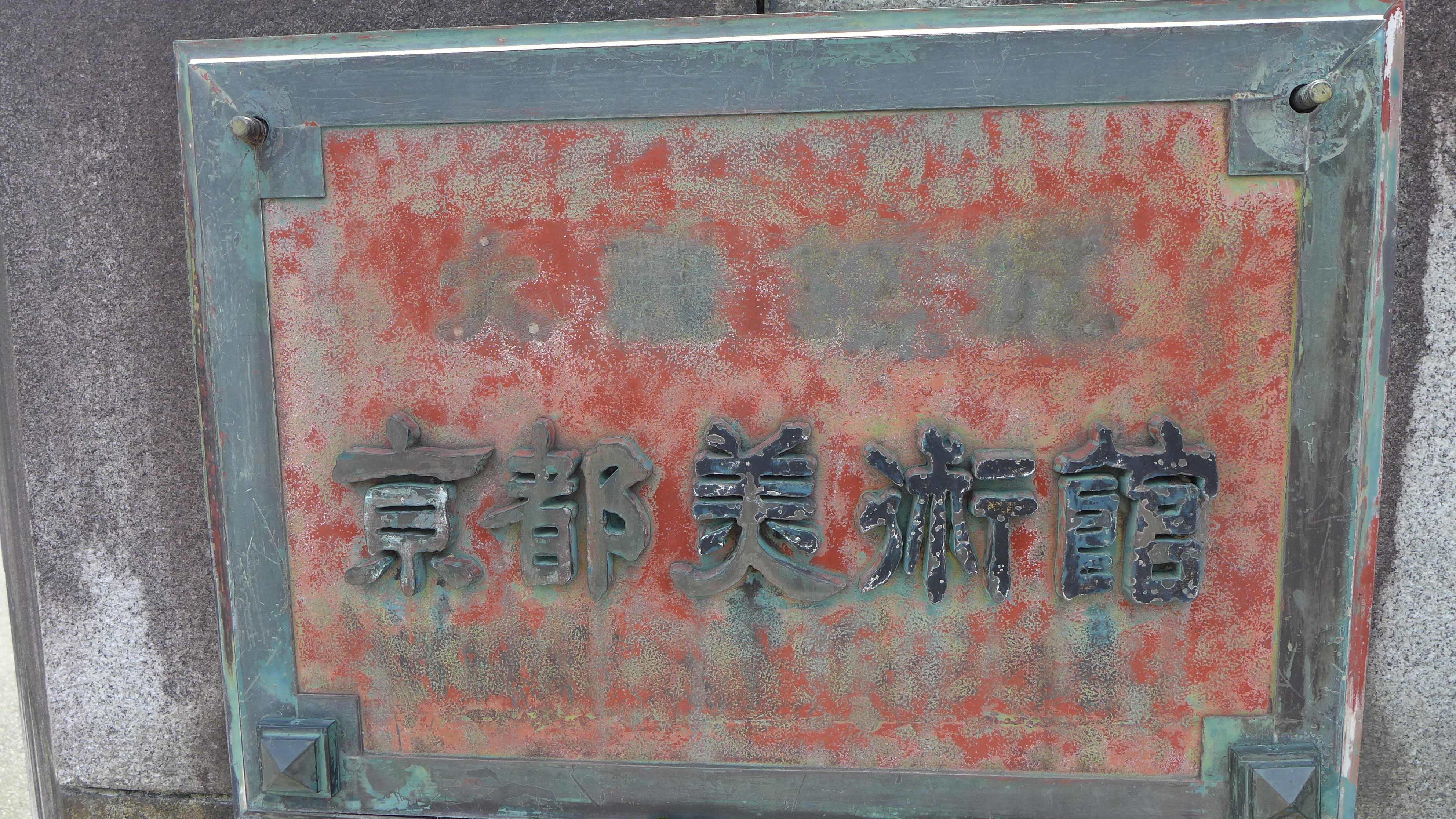 Kyoto Municipal Museum of Art's sign It is deleted TAIREIKINEN(Enthronement of the Japanese Emperor) form sing